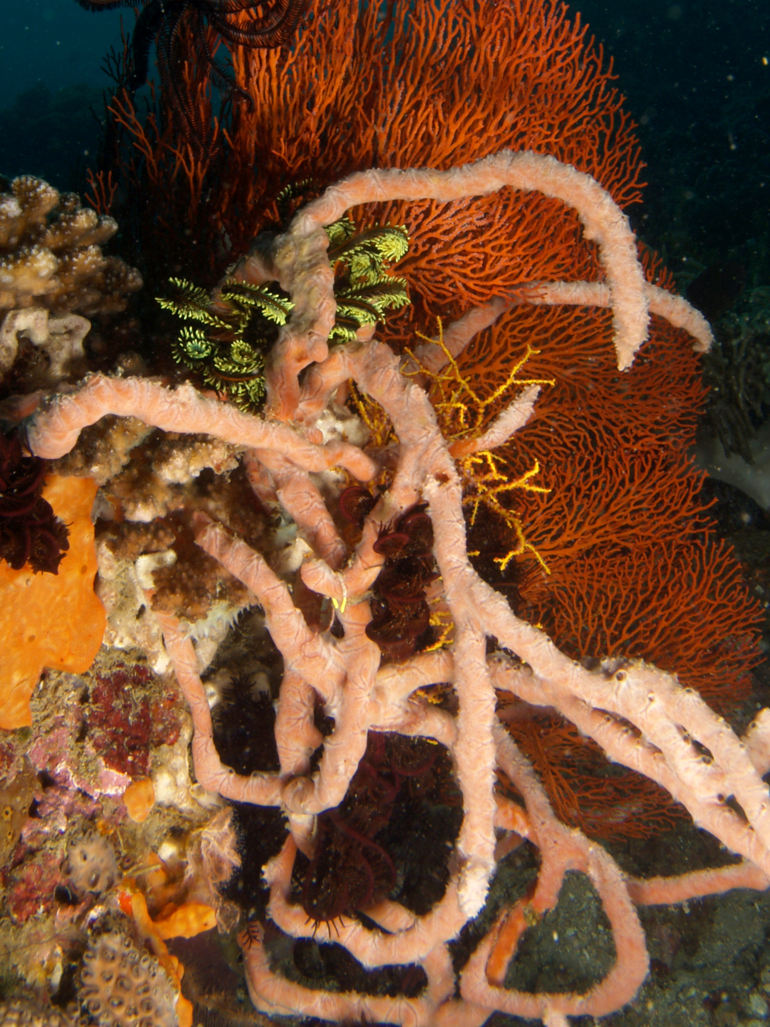 Clathria reinwardti (Sponge)